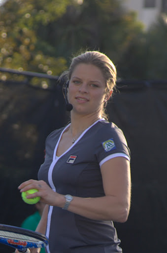 Kim Clijsters in Miami